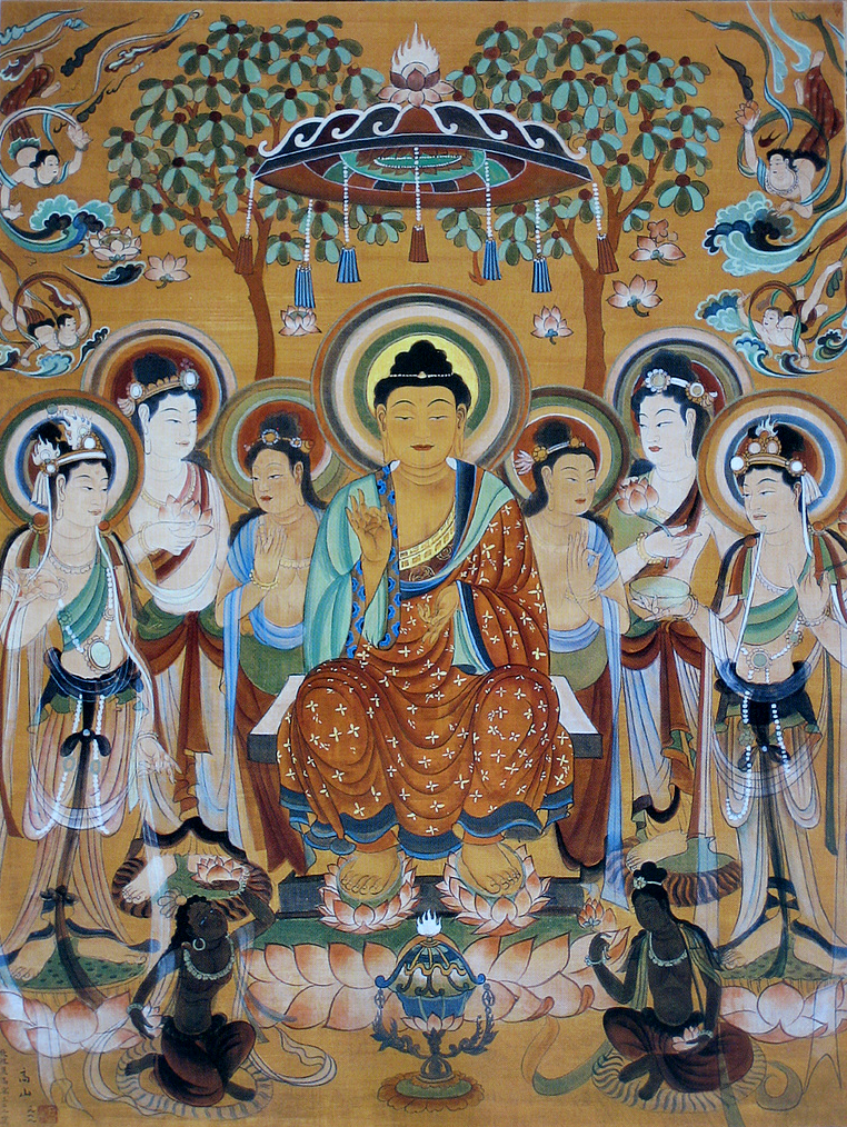 Cave mural painting of the Buddha surrounded by bodhisattvas. The darker and smaller figures below are possibly earth spirits.